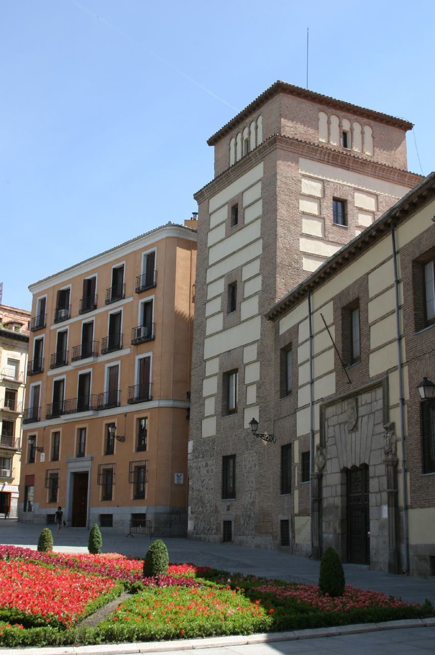 Partial view of the Plaza de la Villa (square) in Madrid (Spain). At the right, Casa de los Lujanes (house) and Torre de los Lujanes (tower).